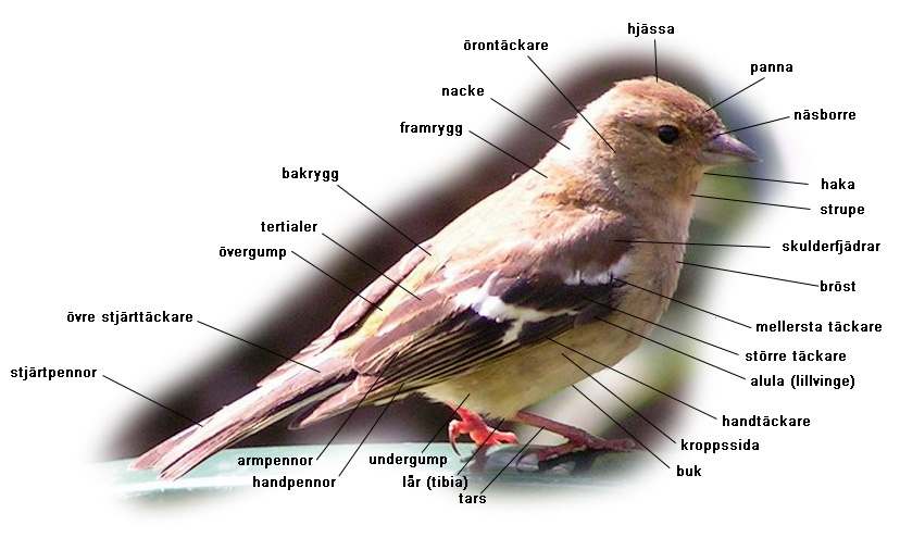 Bird topography